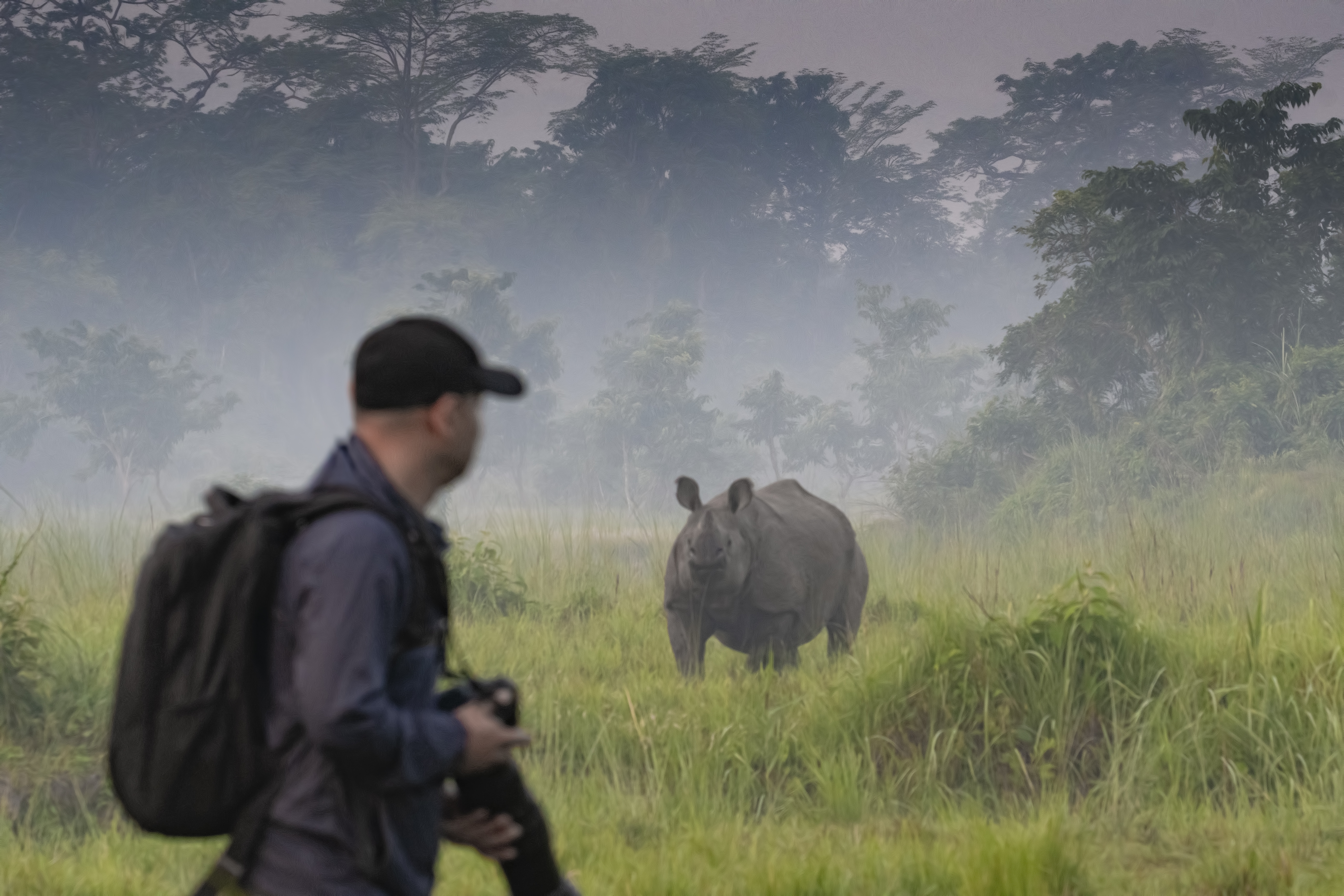 face to face with a rhino